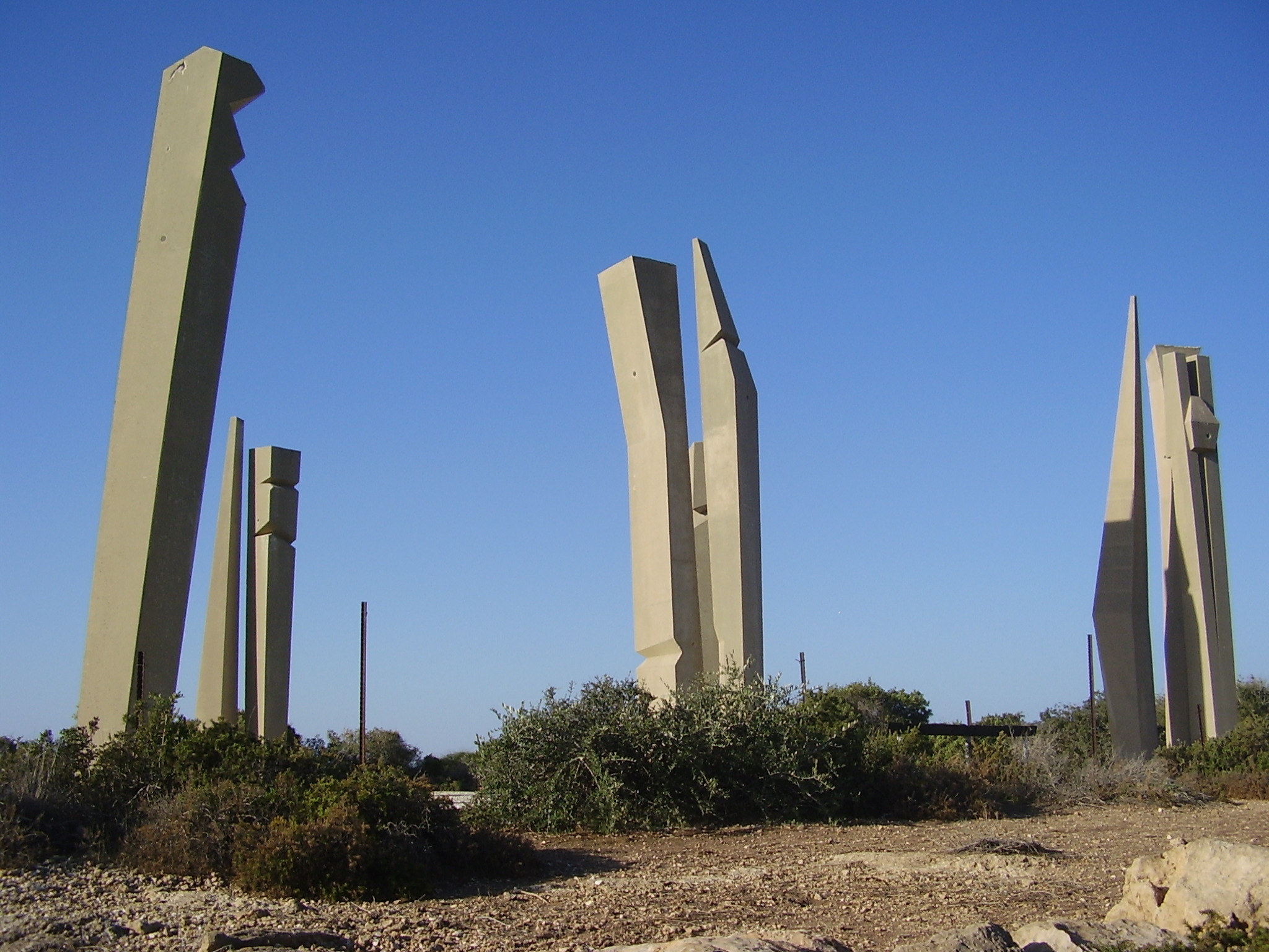 war memorial in atlil